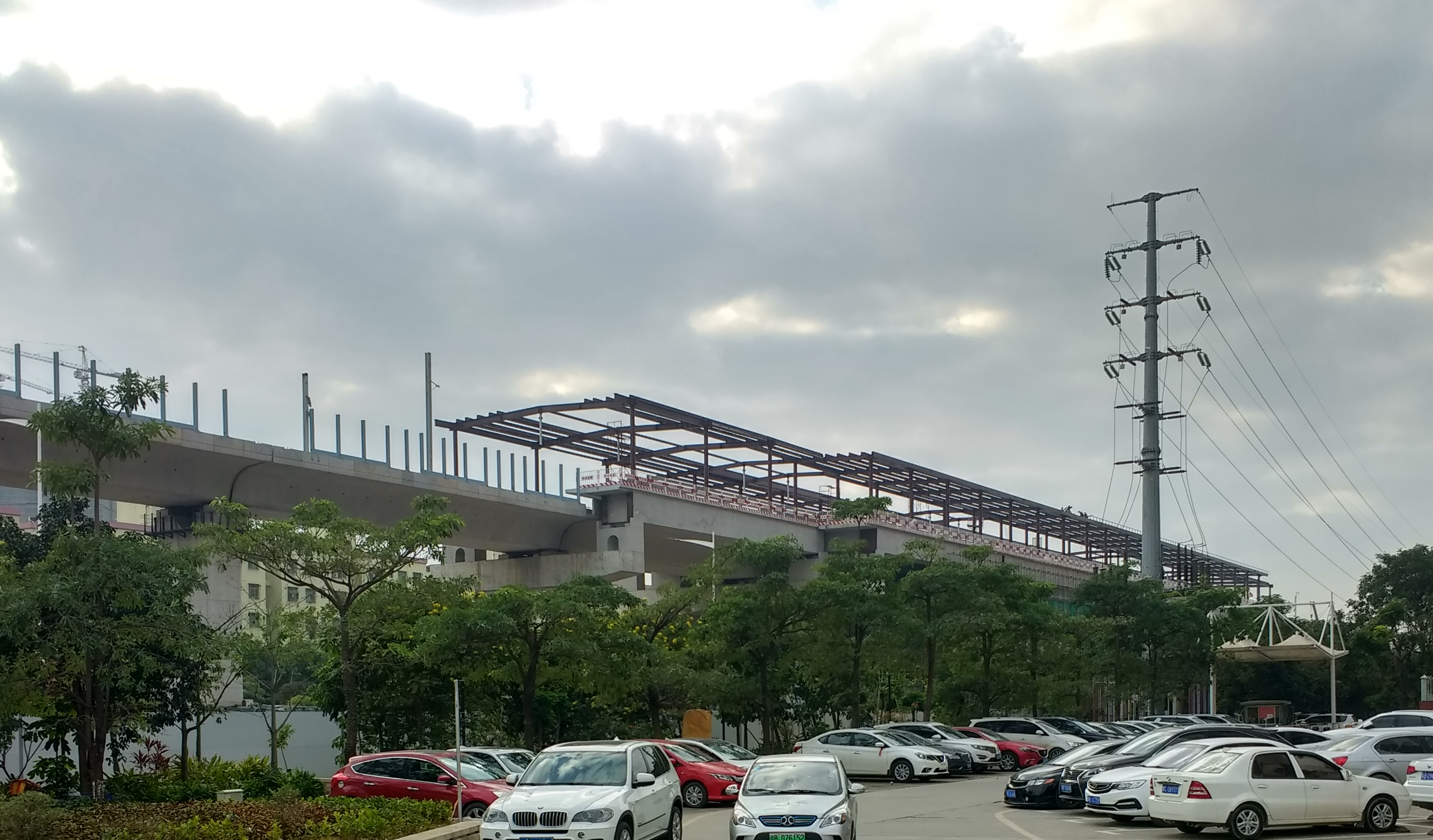 Shajing West station (沙井西站) under construction in Shajing, Shenzhen in December 2018, at the intersection of 松福大道 and 民主大道.